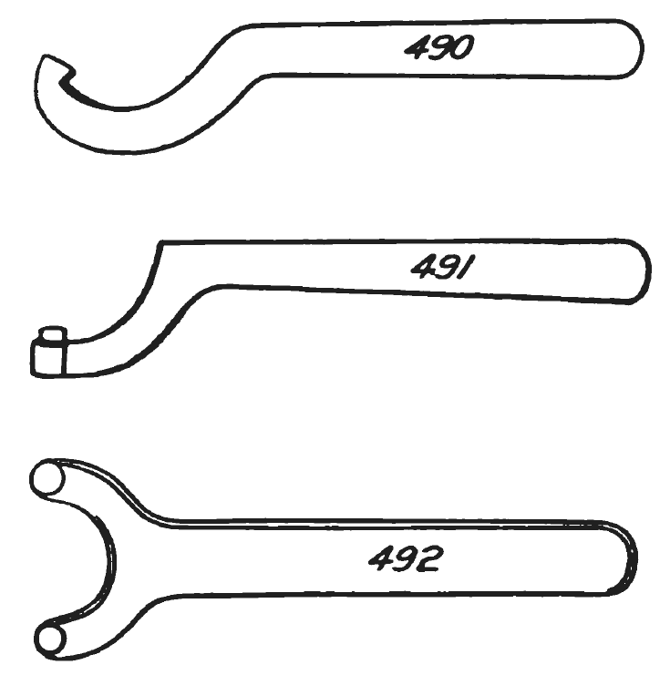 Spanner wrenches (pin spanners) of various kinds. Close up derived from Colvin FH and Stanley FA (1910). Machine shop primer. McGraw-Hill, New York and London, p. 64. Derivative file created 2010-10-23.